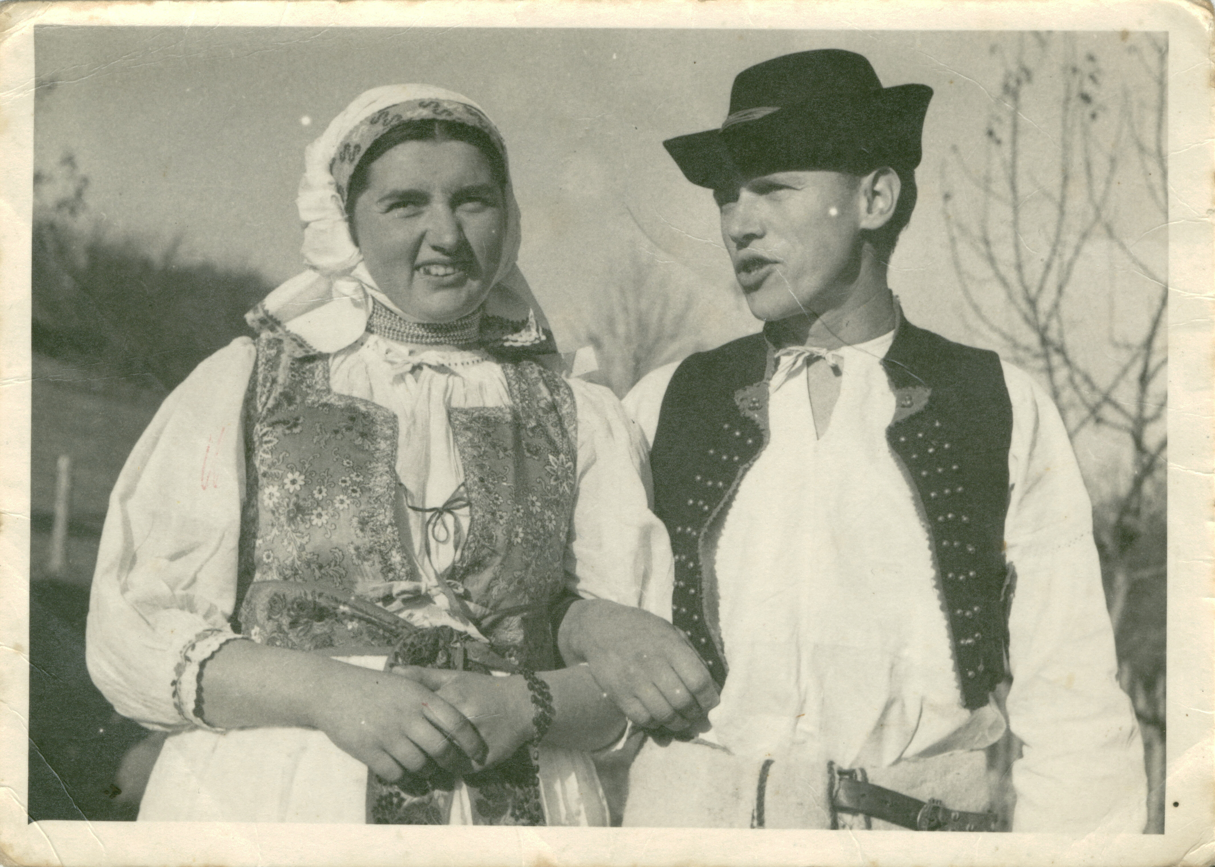 kroj z vadicova